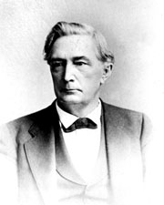 U.S. Senator Alfred H. Colquitt, Biographical Directory of the United States Congress